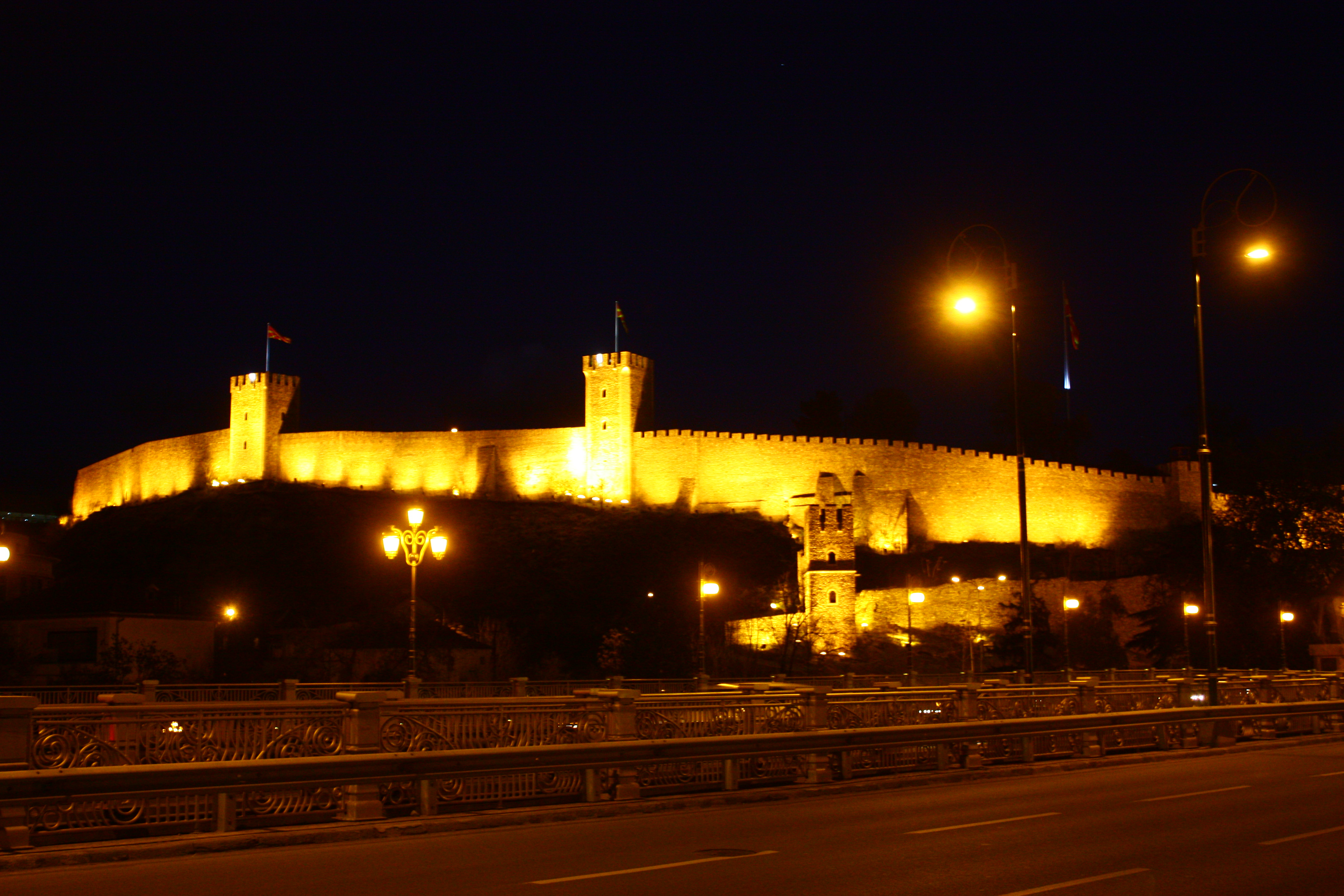 Skopje Forttress, Macedonia) This image is uploaded as part of the picture contest Wiki Loves Cultural Heritage in Macedonia 2013. English | македонски | +/−